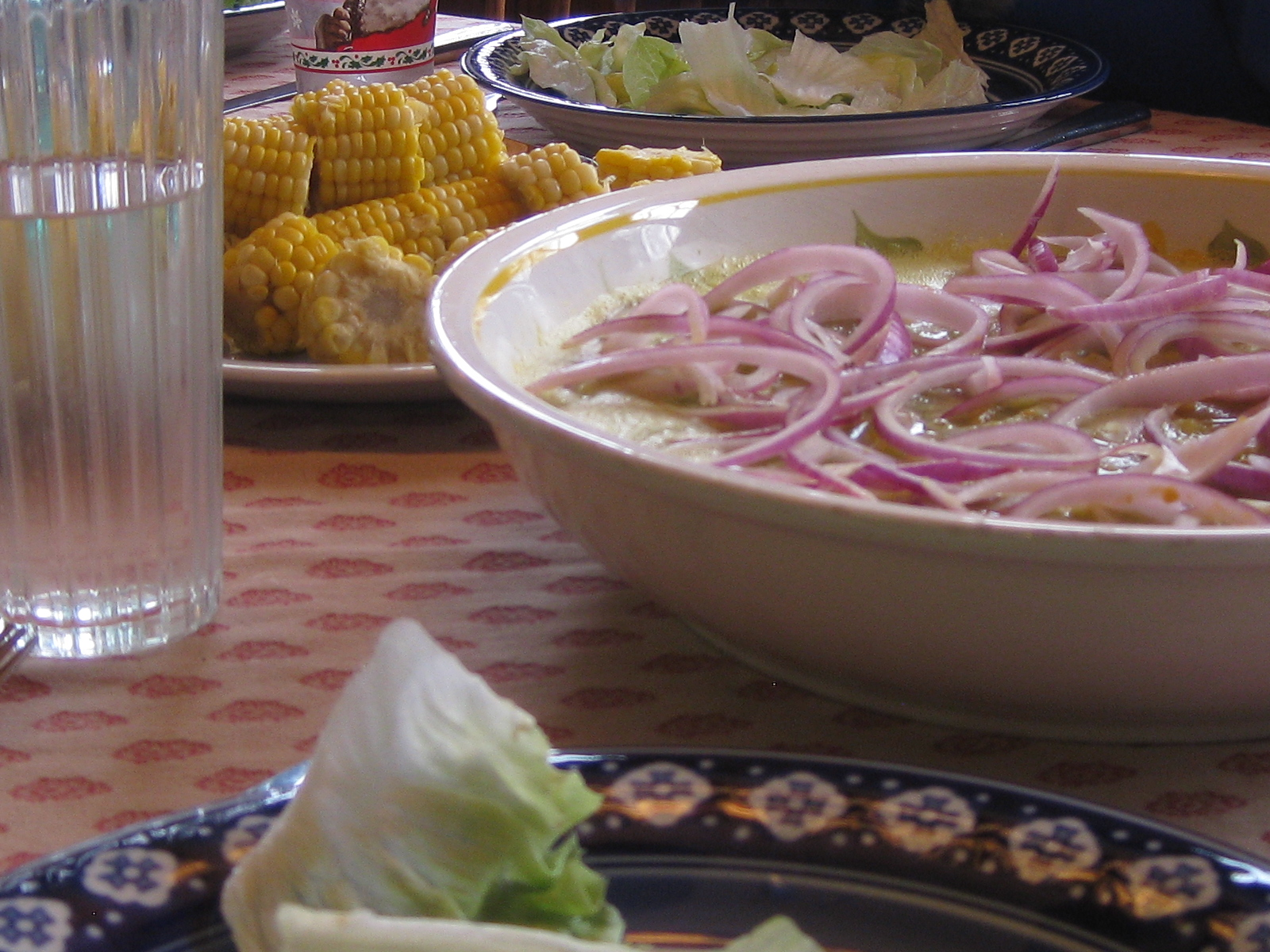 Peruvian Seviche, made well in Omaha.